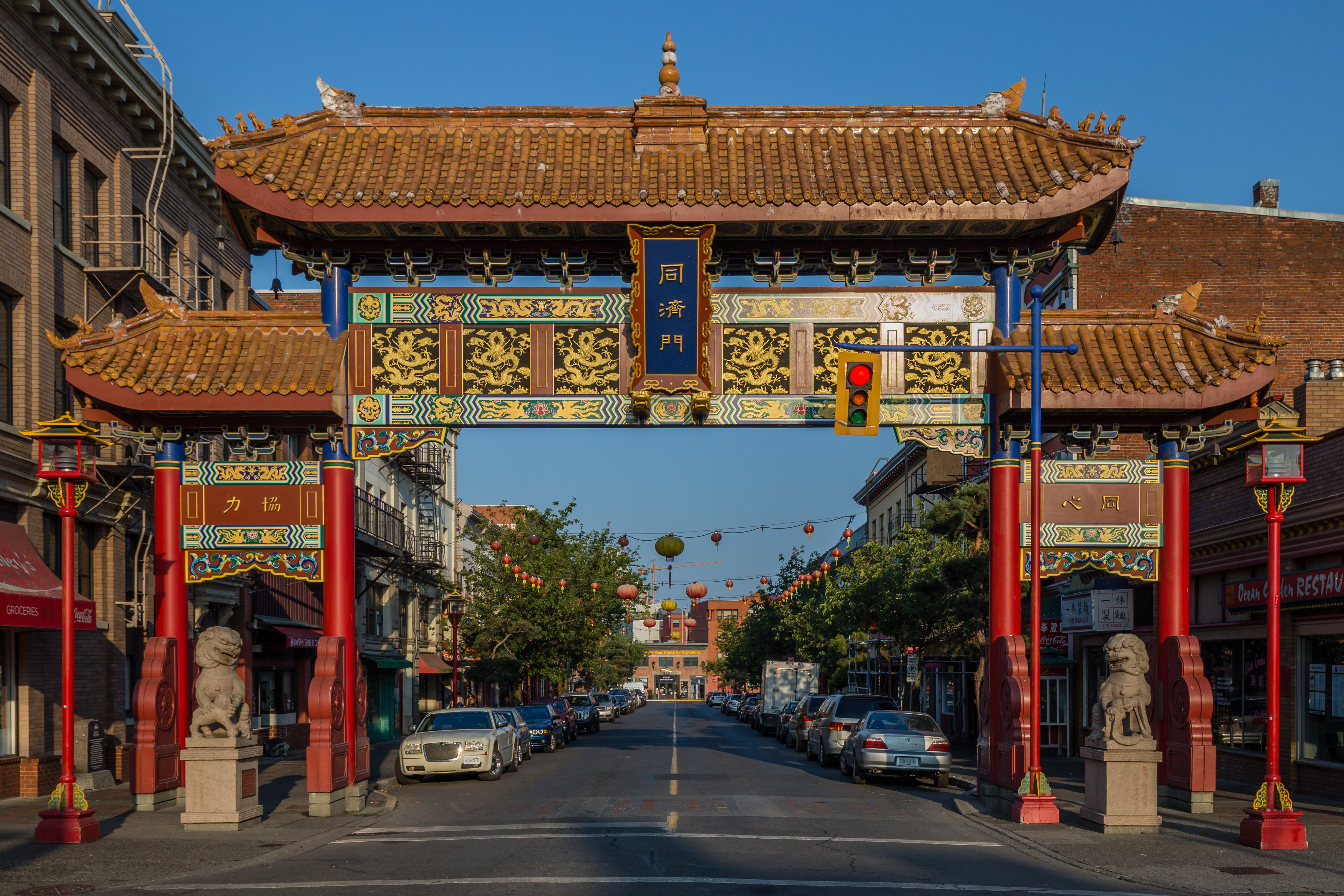 Harmonious Gate of Interest, Victoria, British Columbia, Canada